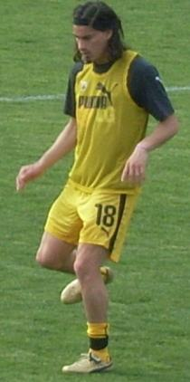 Ismael Blanco warming up before a game